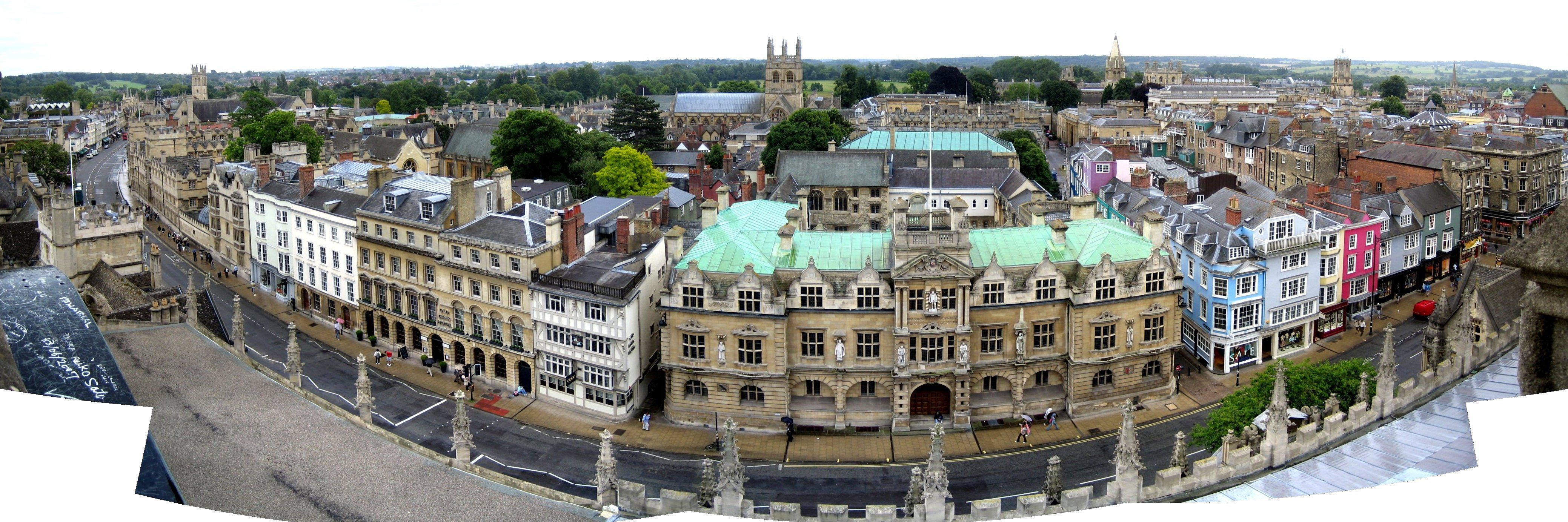 A panorama of Oxford's High St taken from the top of the tower of St Mary's Church, Oxford.